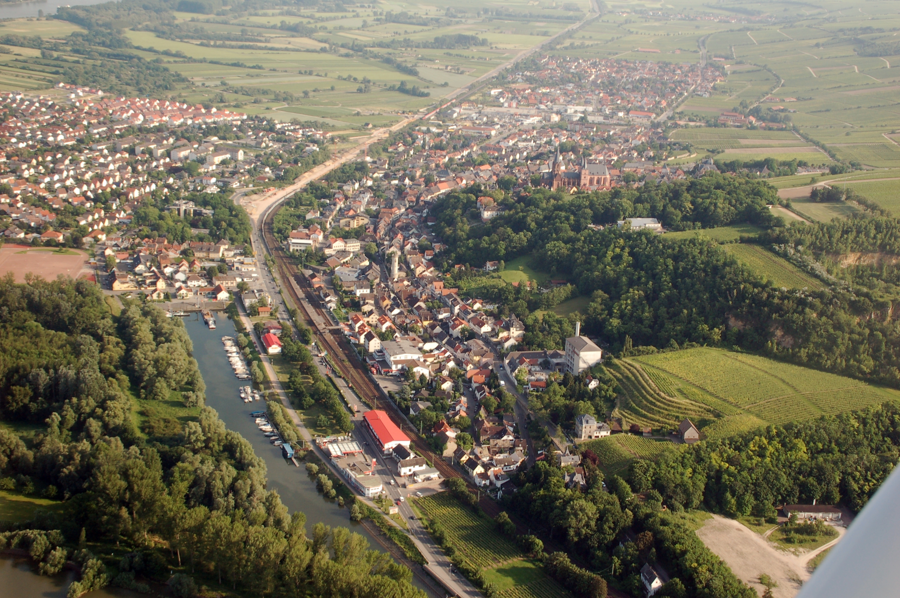 Aerial photograph of Oppenheim, Rhineland-Palatinate, Germany